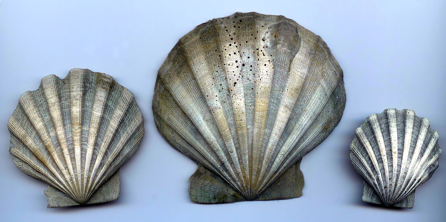 Chesapecten jeffersonius fossils (outside) These fossils were photographed by Berni Nonenmacher, December 26, 2004.